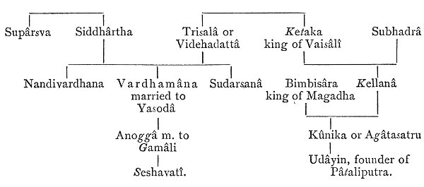 Family tree giving names of the relations of Mahâvîra The Jain Tirthankara